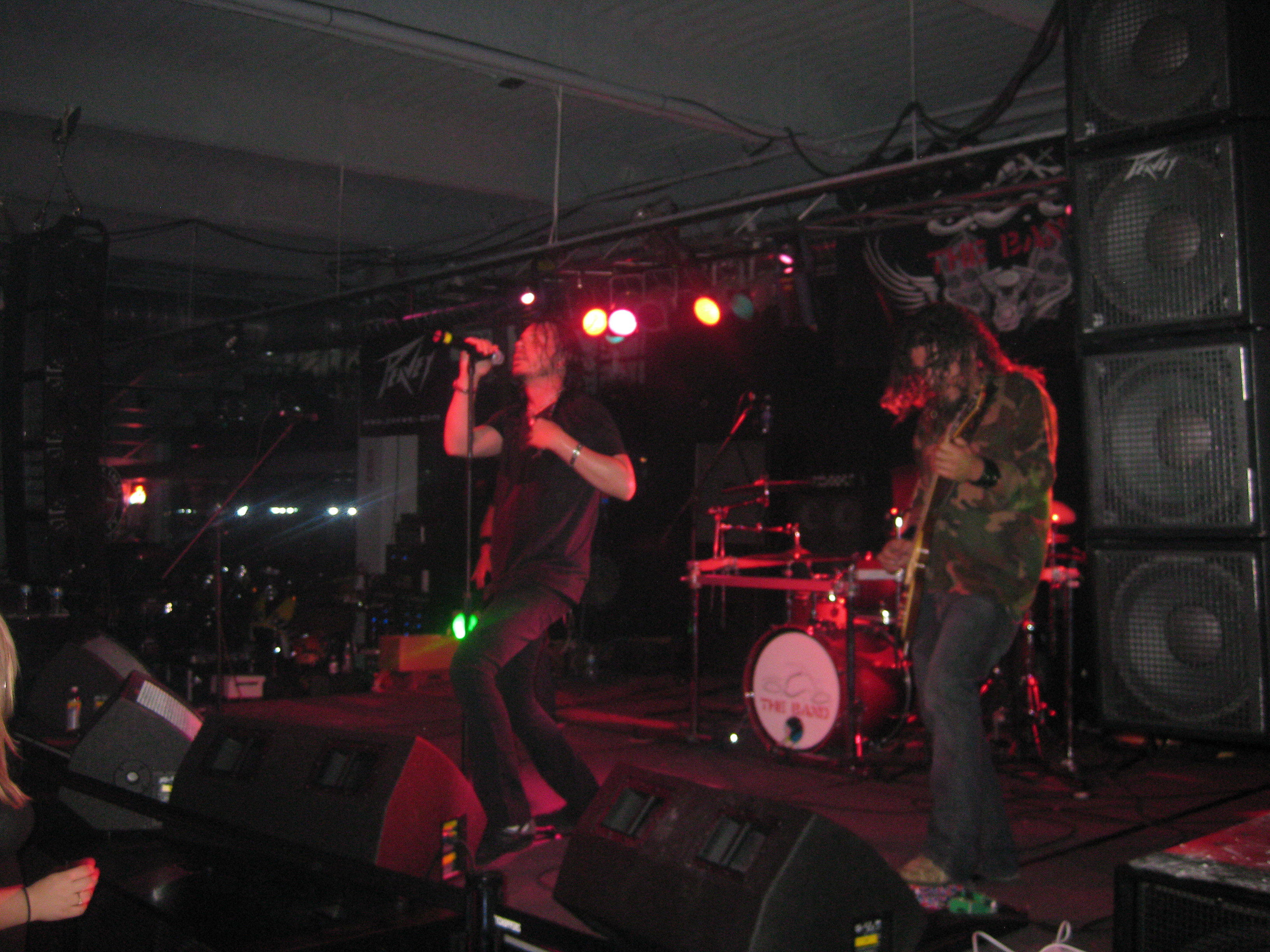 Earshot live at OCC